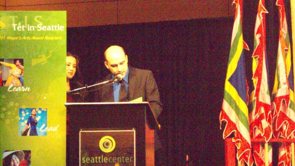 Kevin Spacey speaks at a lectern during a Tet celebration in Seattle